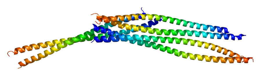 Structure of the VIM protein. Based on PyMOL rendering of PDB 1gk4.